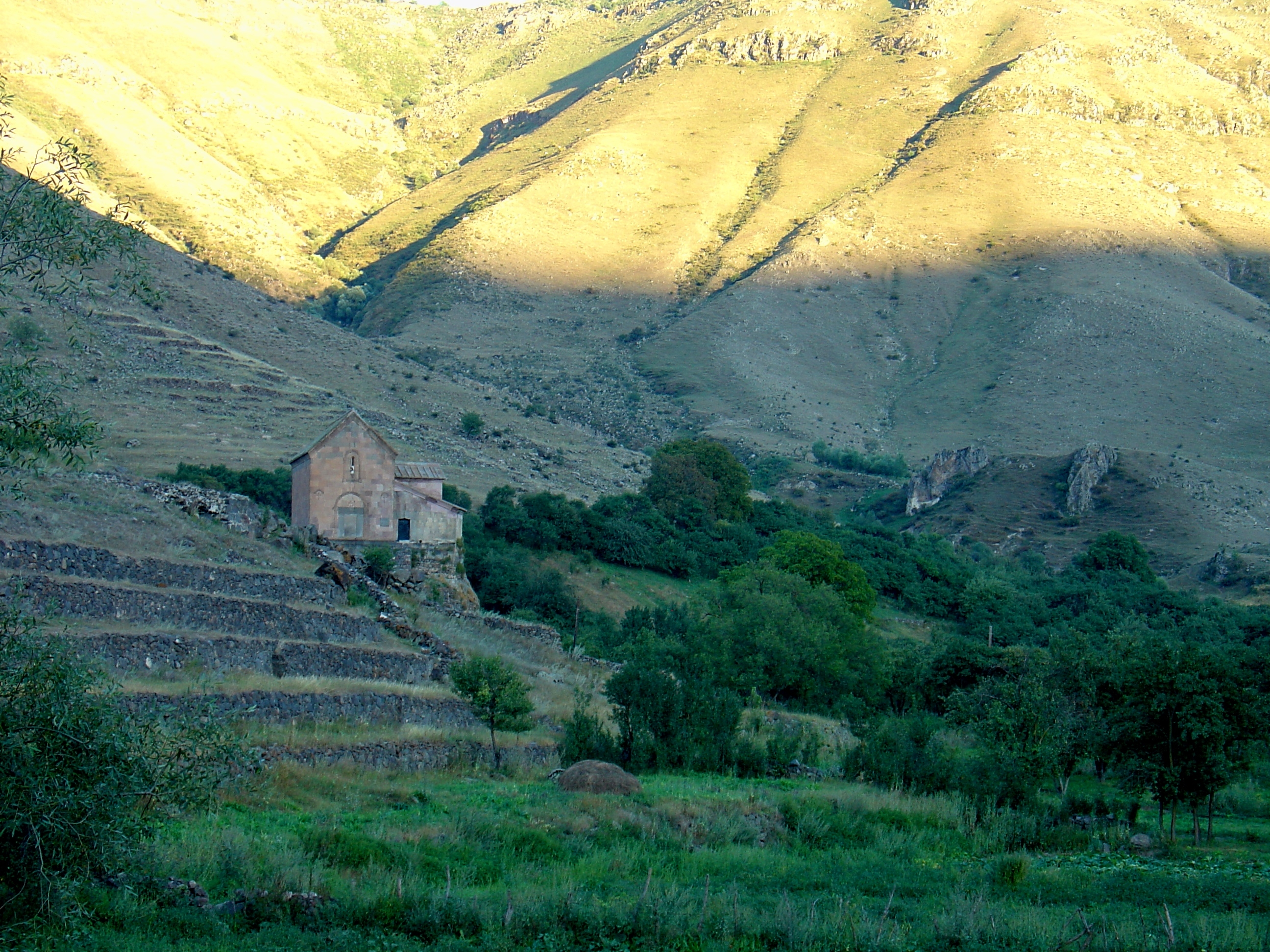 Tsunda church in Samtskhe-Javakheti, Georgia. Built in teh 12th/13th century